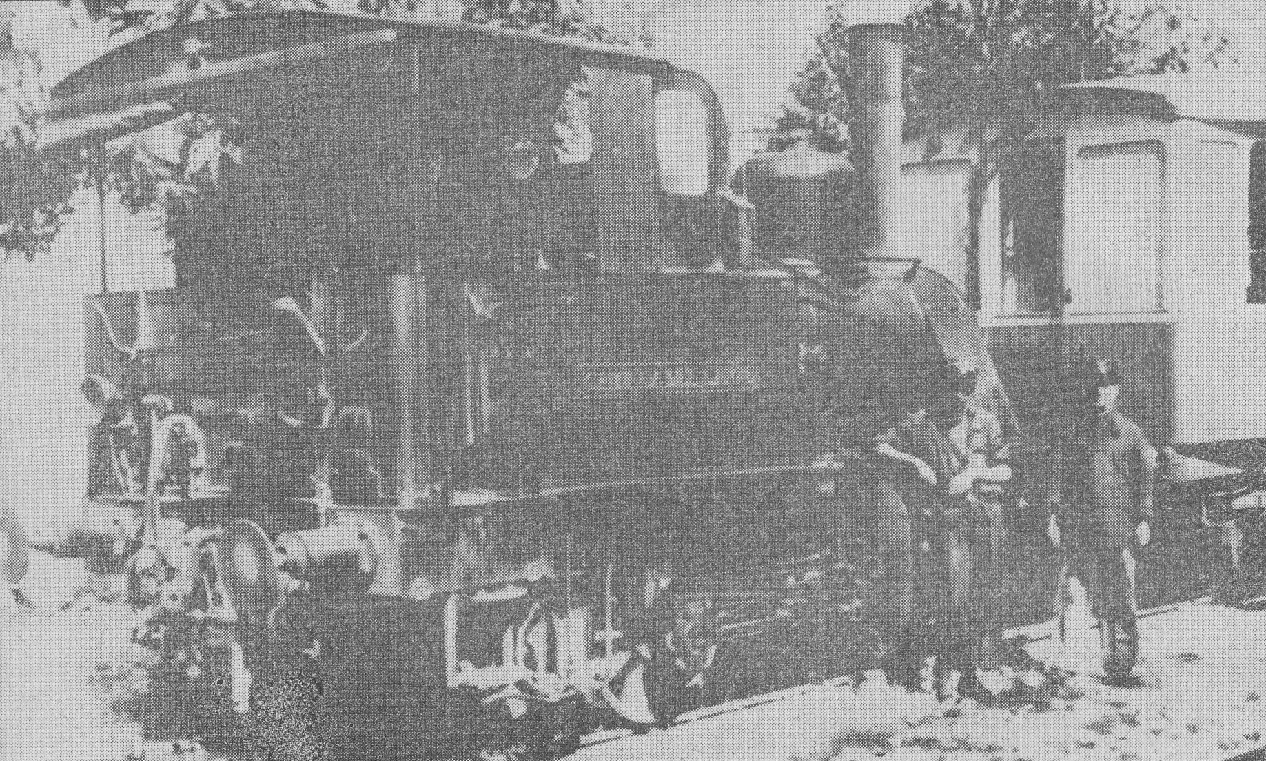 Old "Camilla Del Lante" steam engine, used in the former railway between Pisa and the sea. Tuscany, Italy.